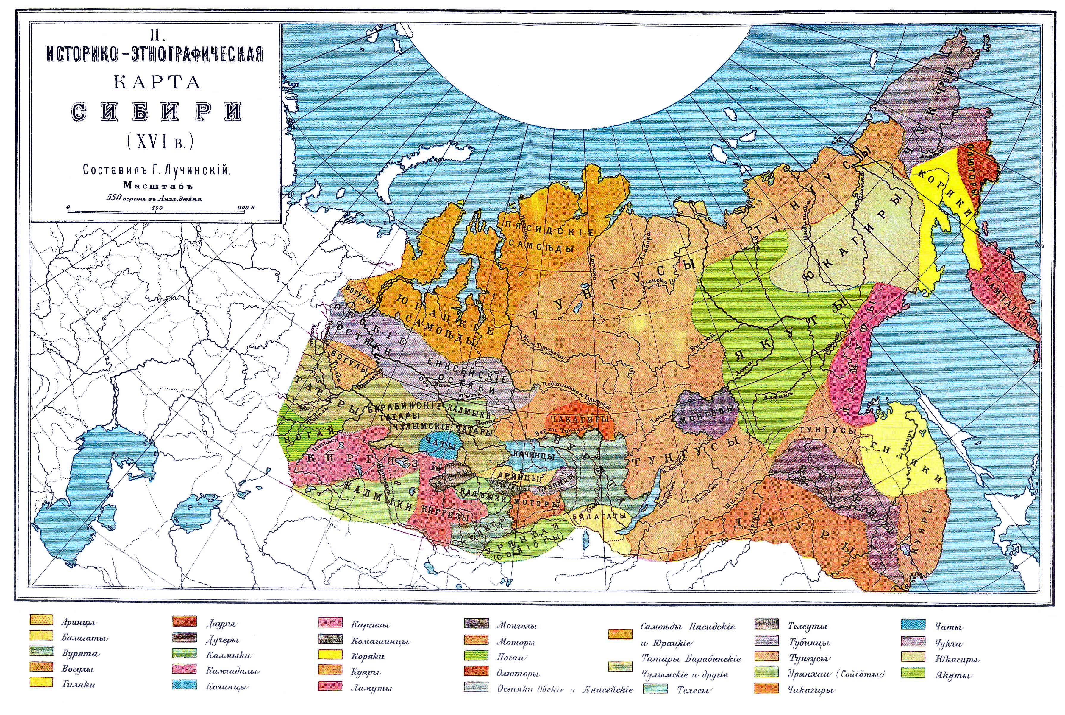 Illustration from Brockhaus and Efron Encyclopedic Dictionary (1890—1907) Historical ethnographic map of Siberia (16th. century). Author: George Luchinsky (Лучинский Георгий Авксентьевич)Indigenous Siberians before the Russian colonization